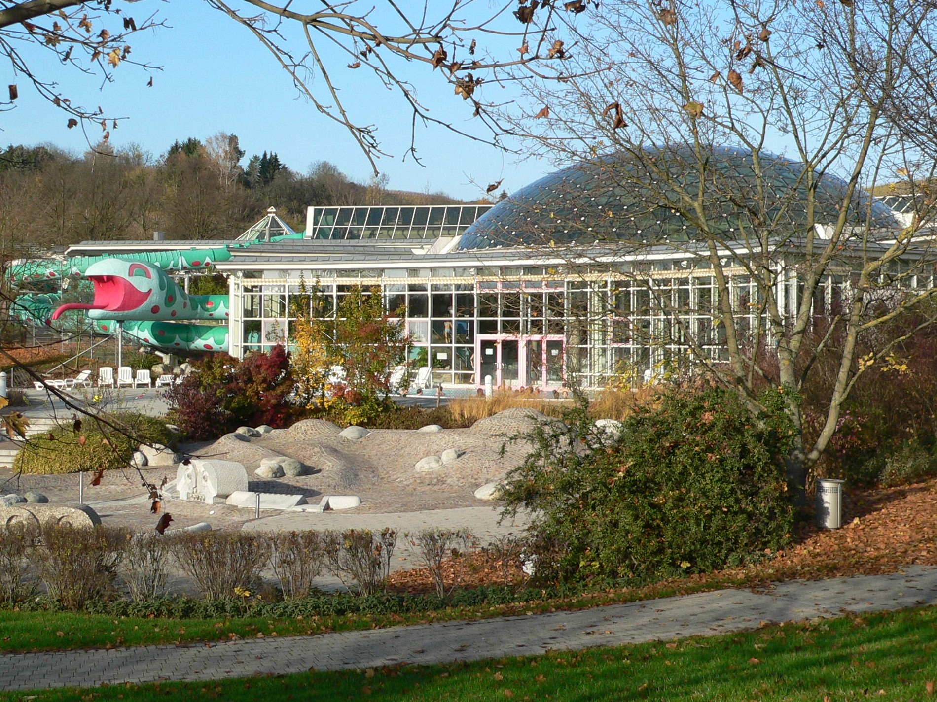 Indoor pool for fun and relaxing of the town Neckarsulm